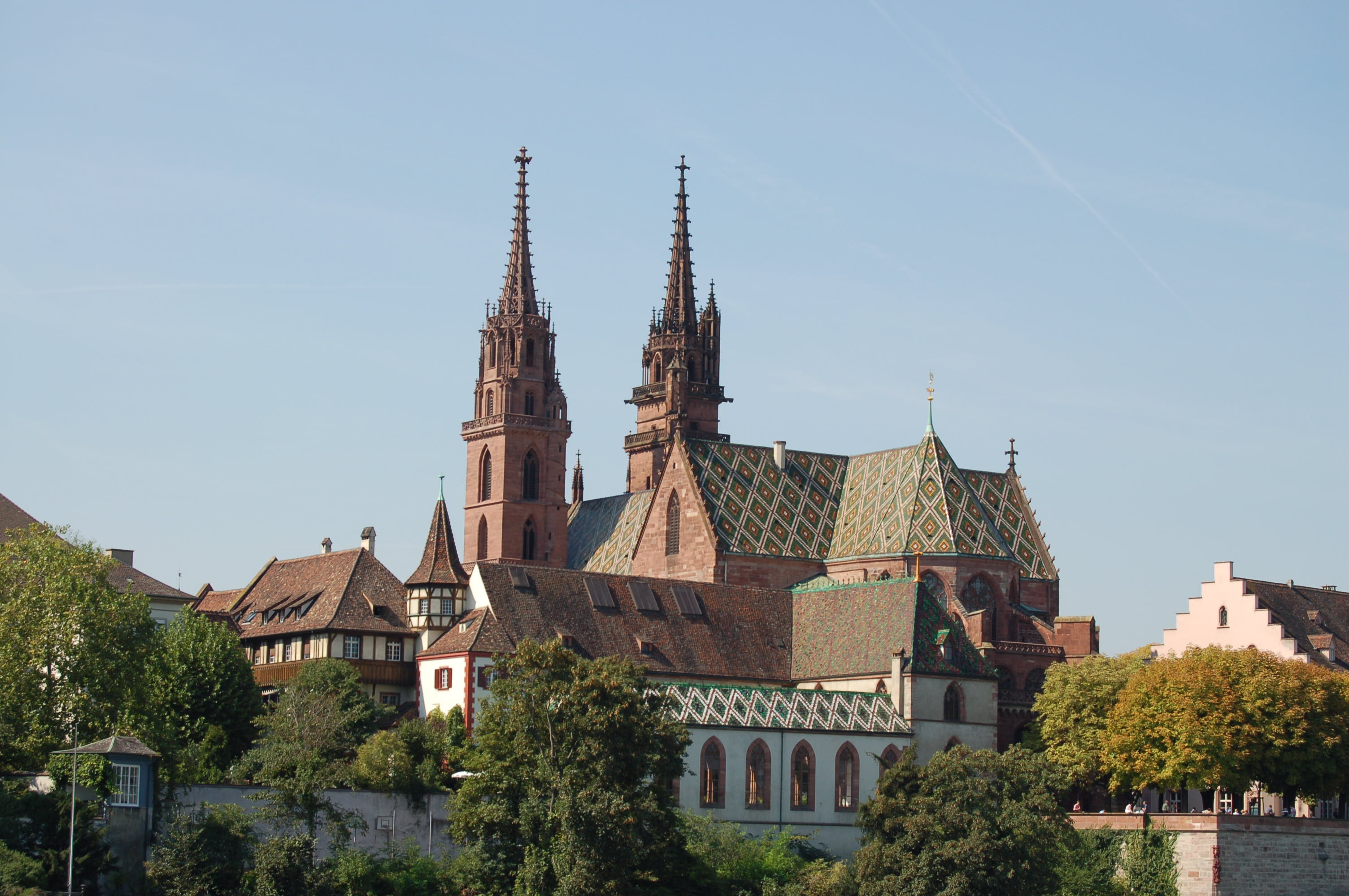 Basle, Switzerland